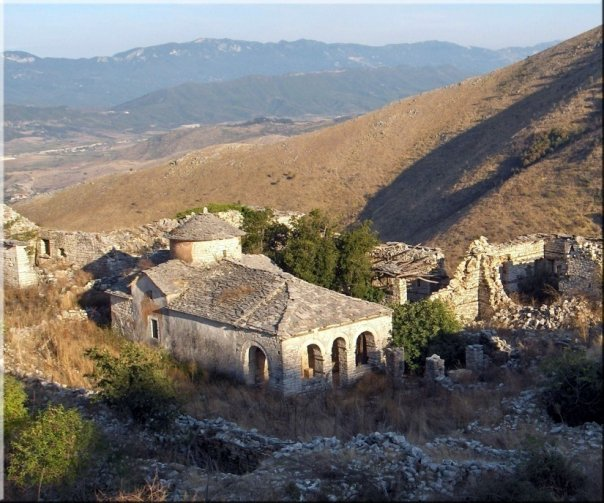 Dryano monastery in Zervati